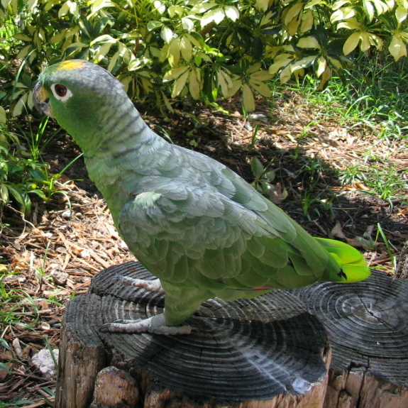 Mealy Amazon (Amazona farinosa) at Jungle Island, Florida, USA.